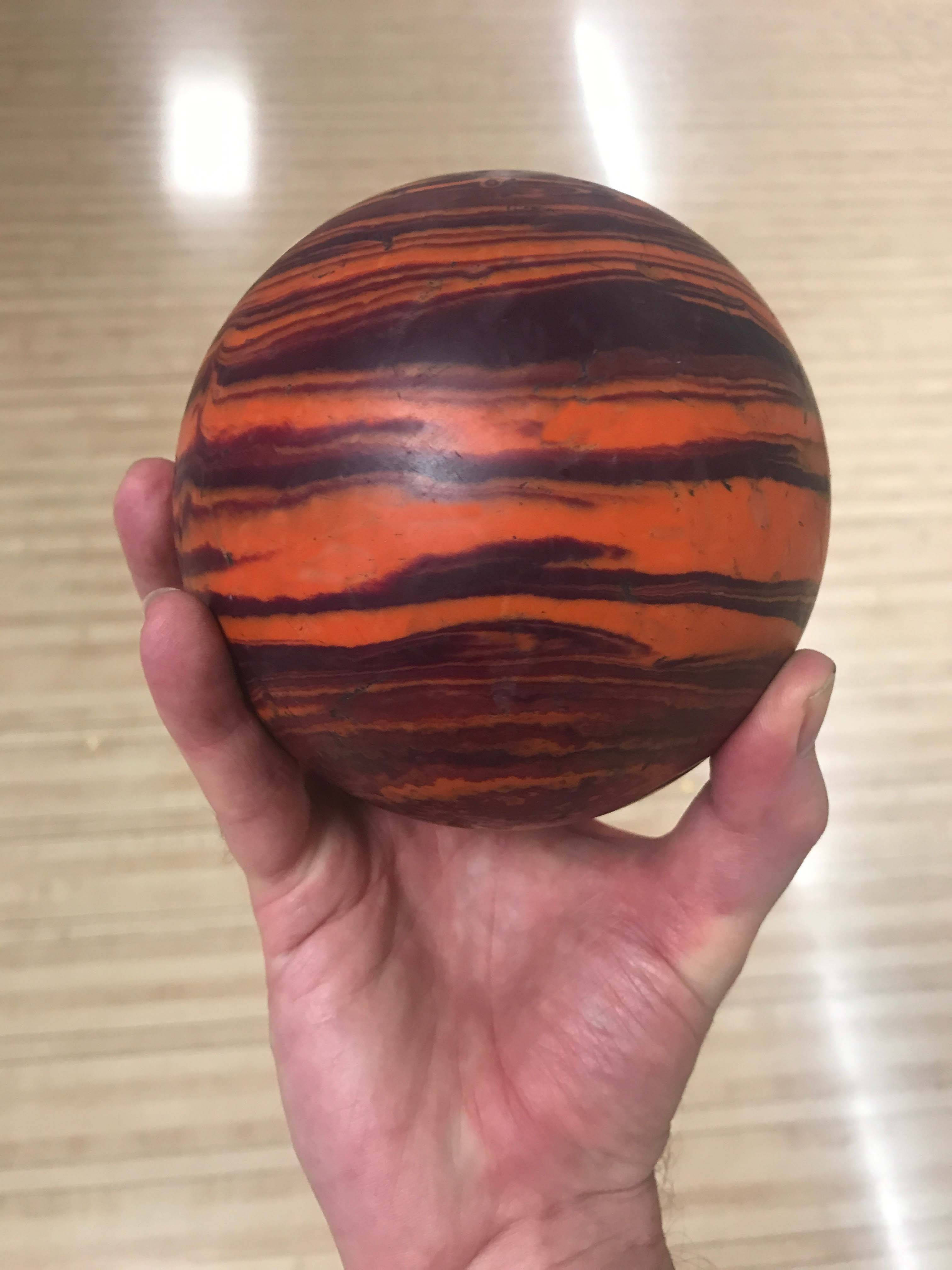 Duckpin bowling ball, in hand to show scale